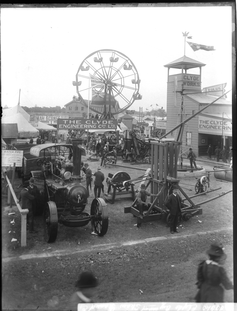 a collection of historical pictures in the Public Domain from the Powerhouse Museum.